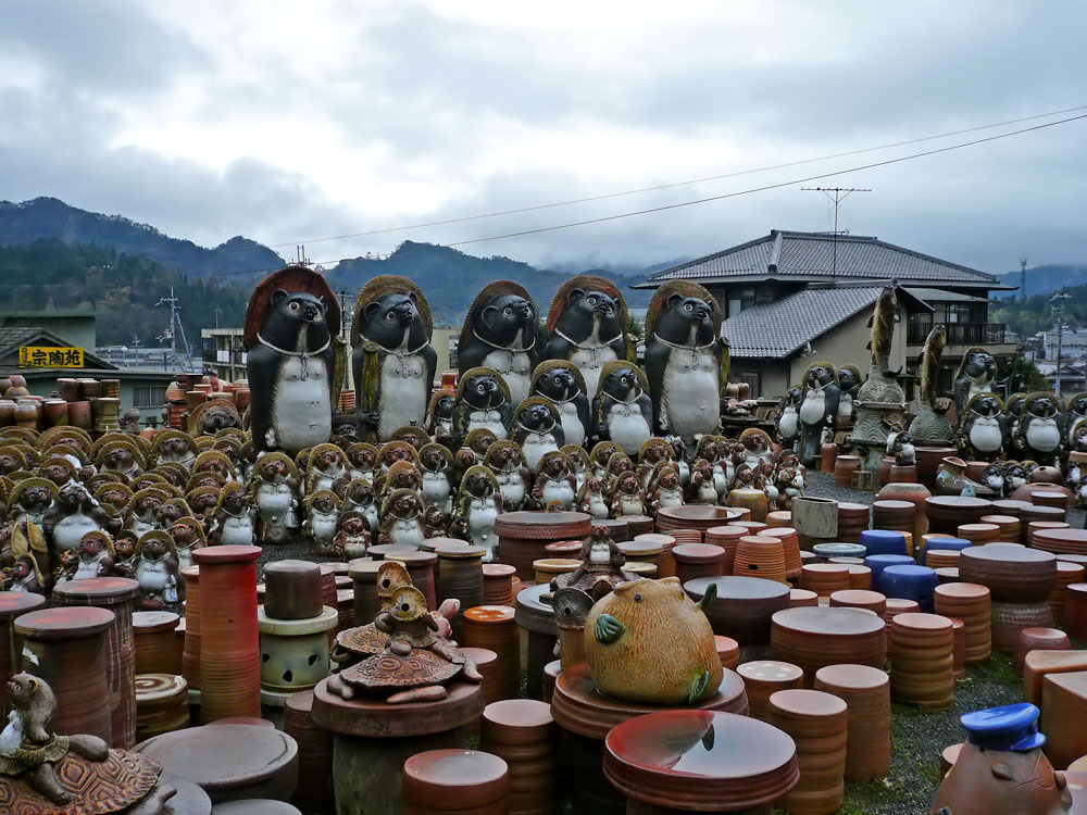 Tanukis in Shigaraki